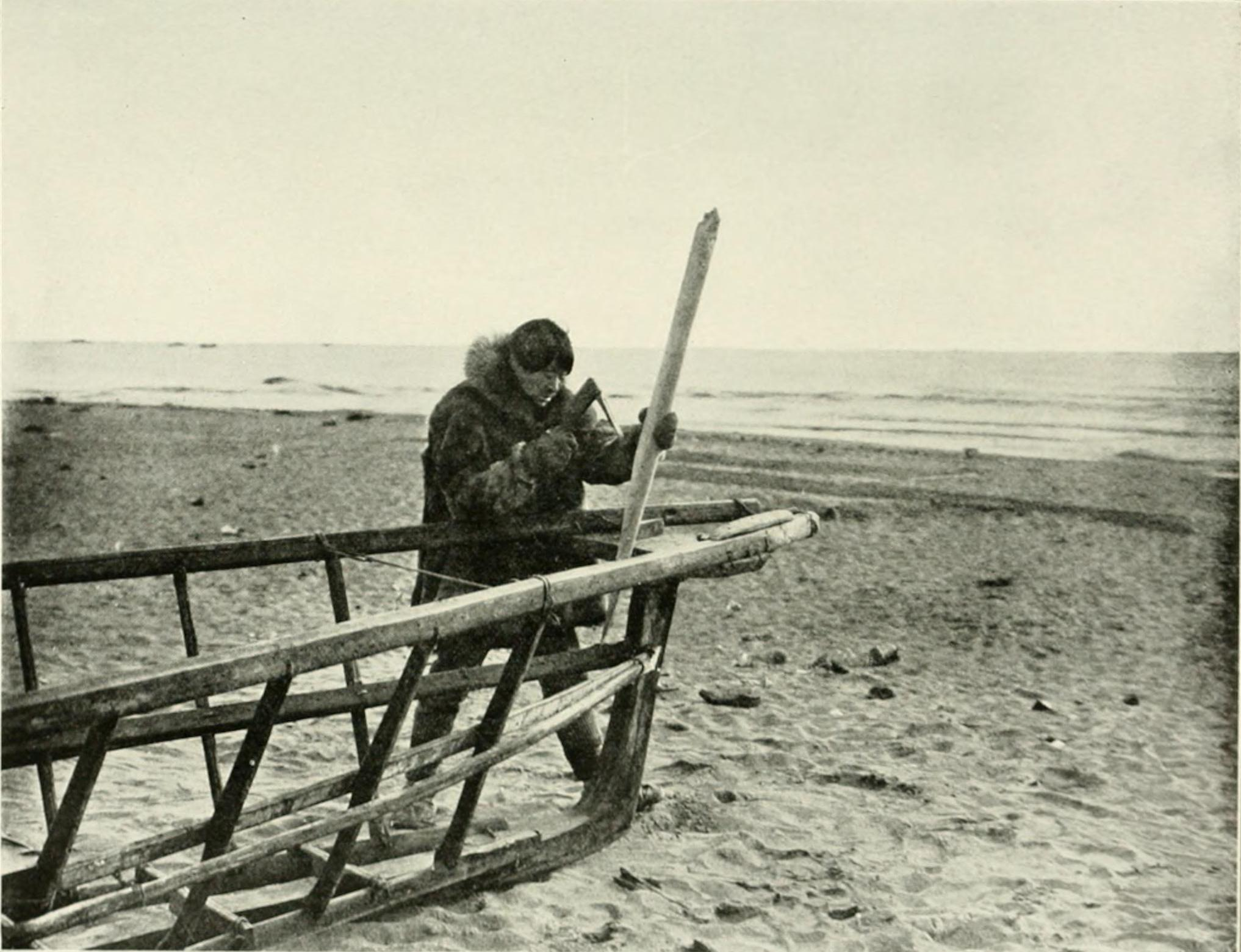 A native (Aleut, Inupiaq or Yupik) boat builder works on a beach, constructing a boat frame. He is holding an adz as he shapes a piece of wood. Location not specified.